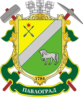 Coat of Arms of Pavlograd Dnepropetrovsk Oblast